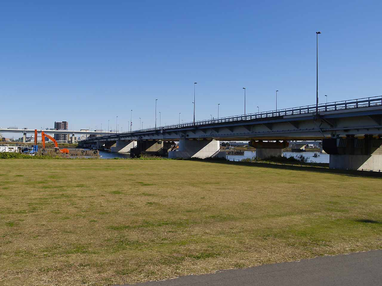 Komatsugawa o-hashi bridge, on Arakawa river.